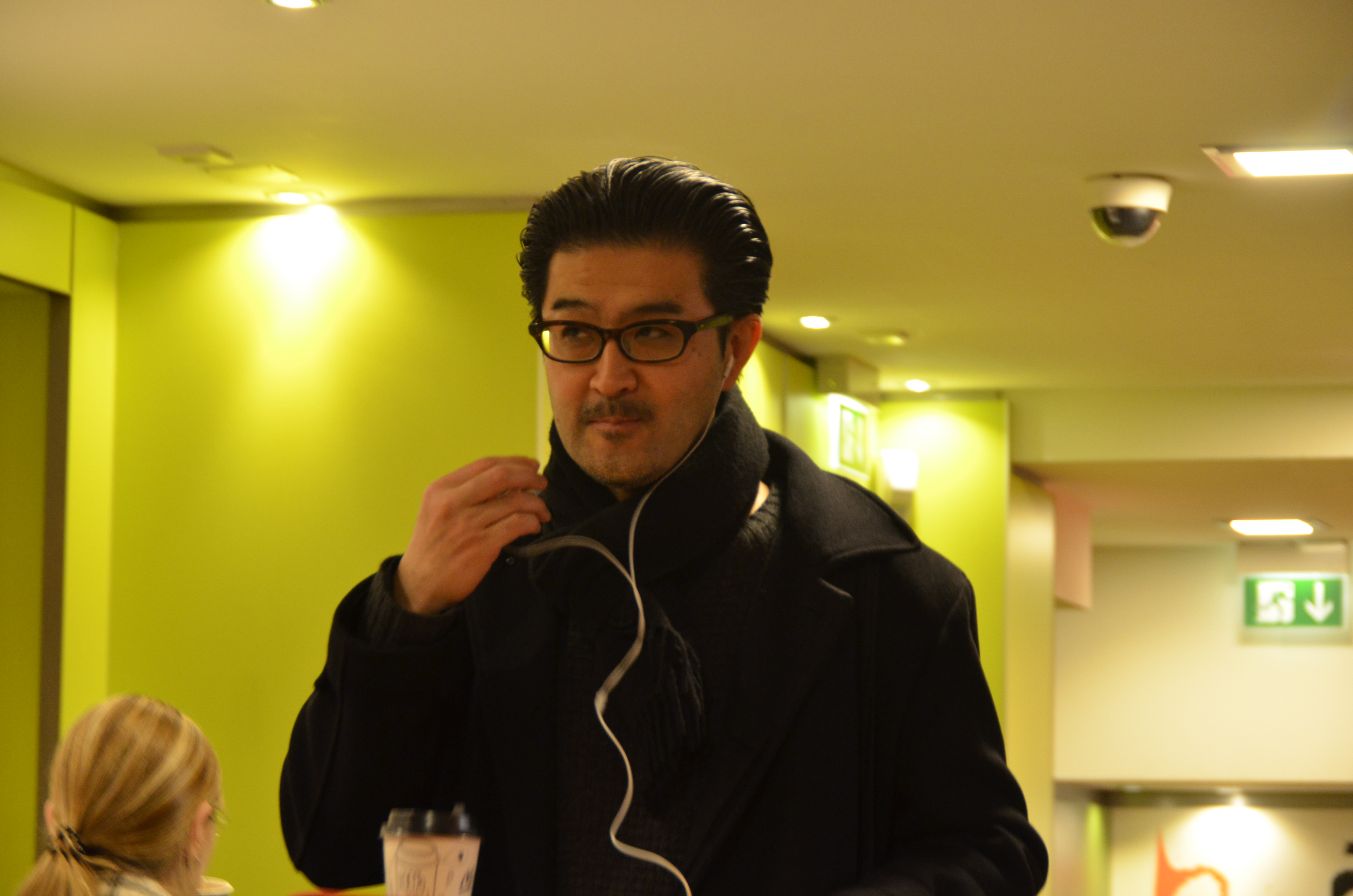 Akira Takayama during the theatre project McDonald’s Radio University.